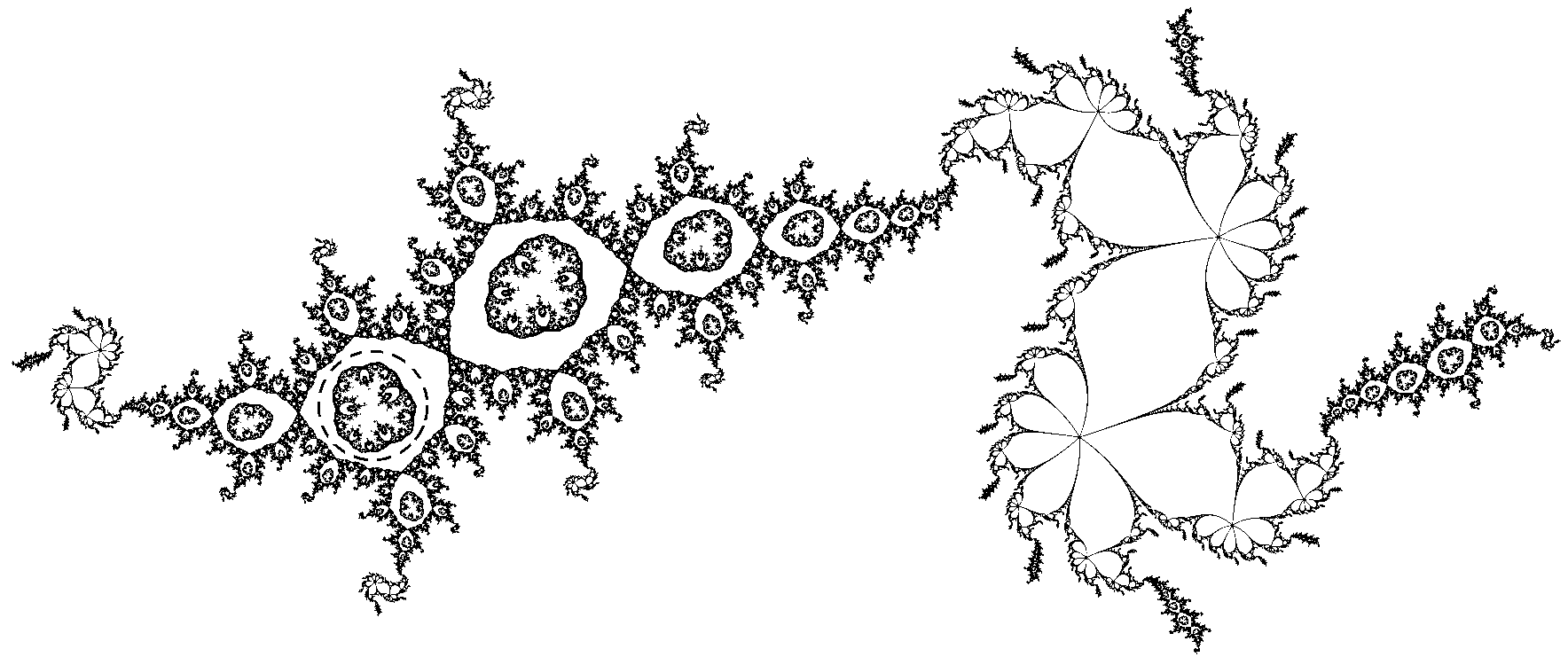 A rational function possesses a Herman ring and parabolic Fatou component